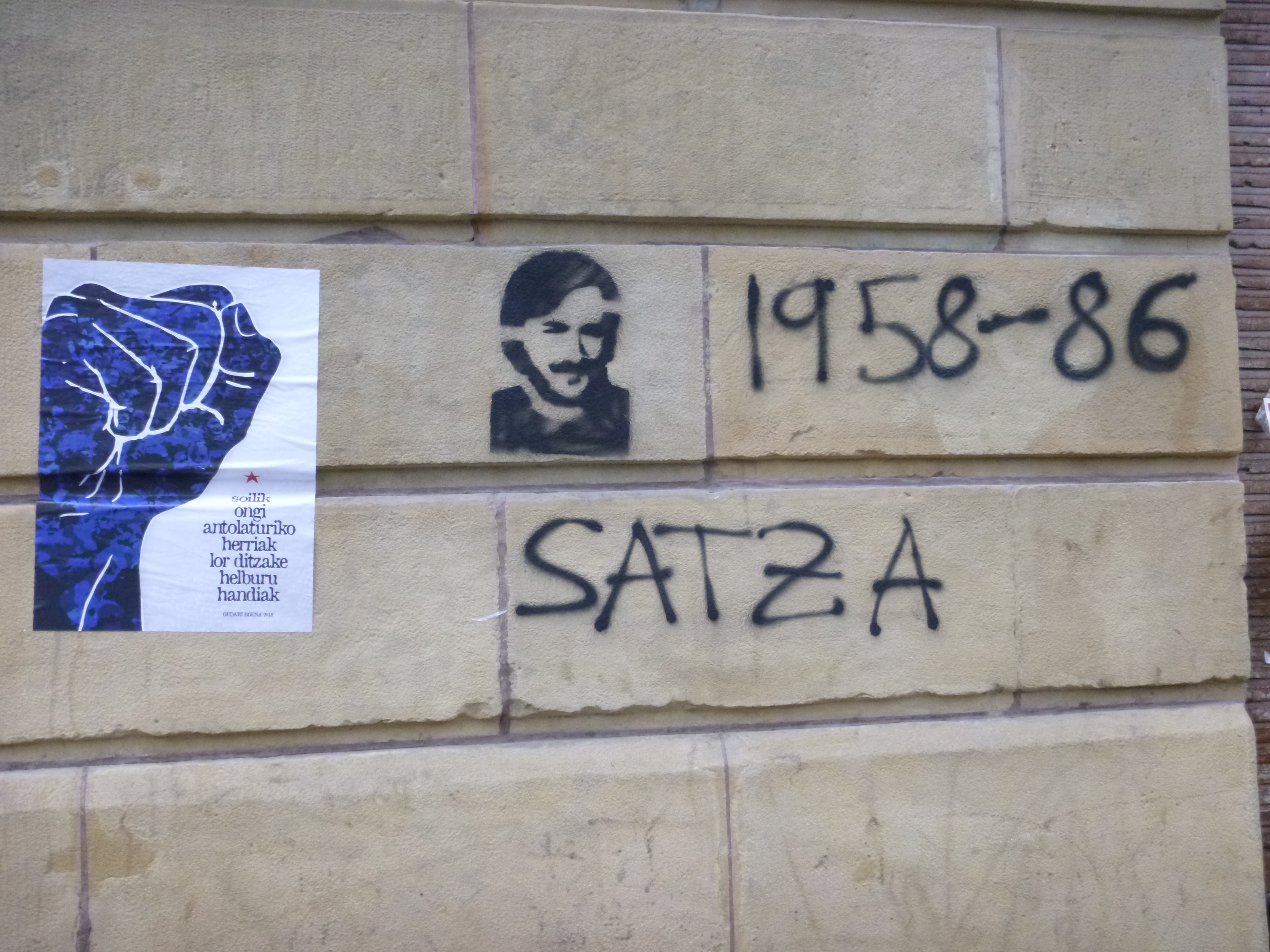 Graffiti dedicated to Satza